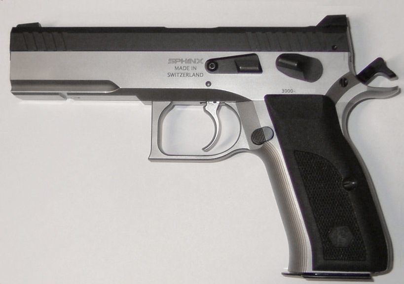 Meswiss (picture of own S3000)